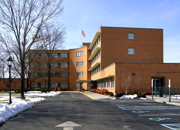 Burrell Memorial Hospital listed on the National Register of Historic Places in Harrison, Roanoke, Virginia, USA